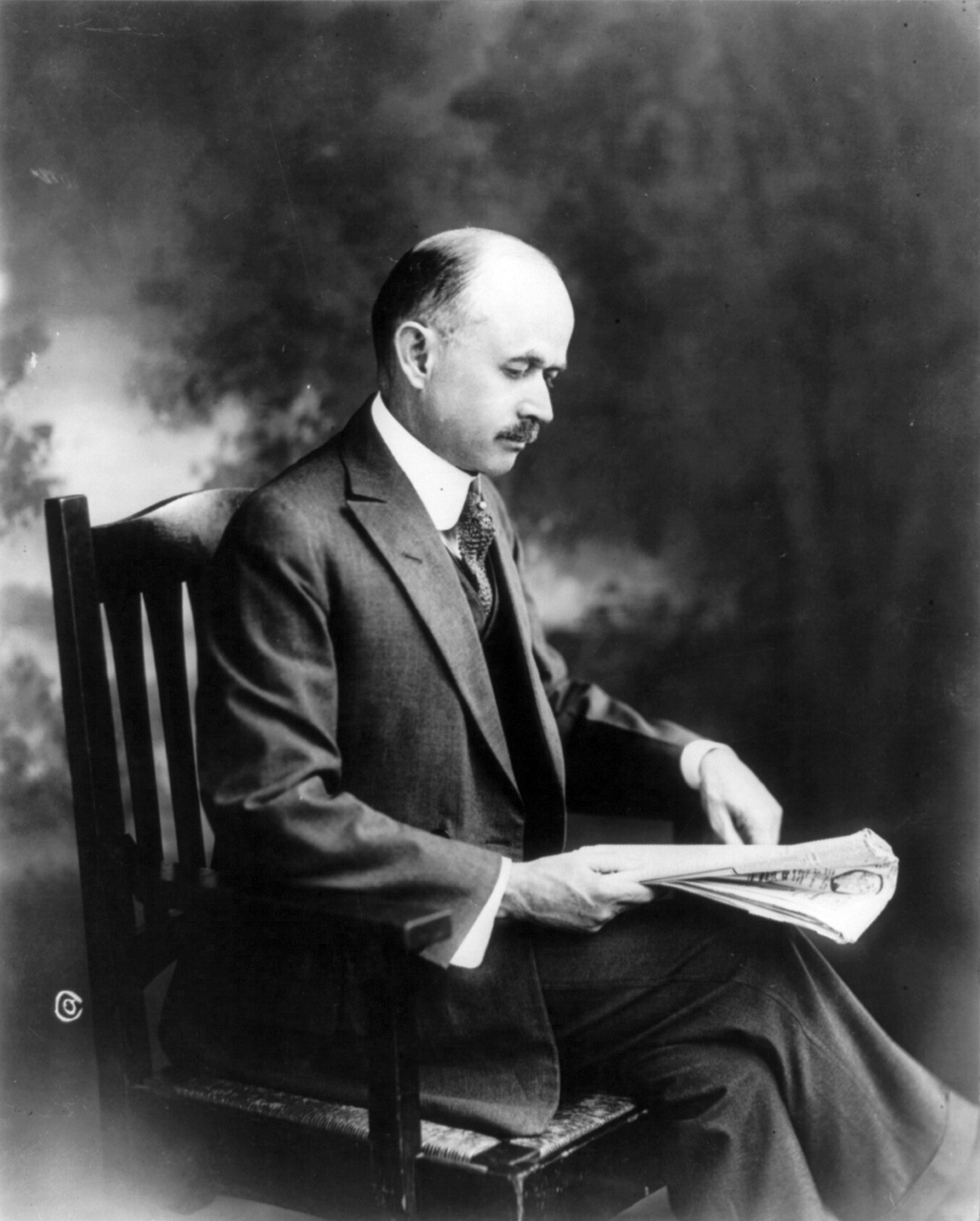 Ben Lindsey, American judge and social reformer, reading newspaper